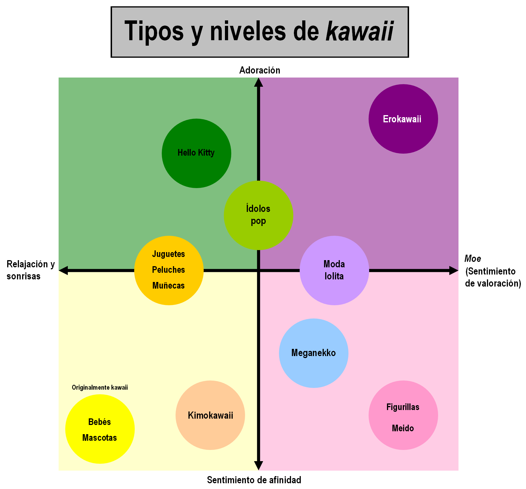 Levels and types of kawaii things.